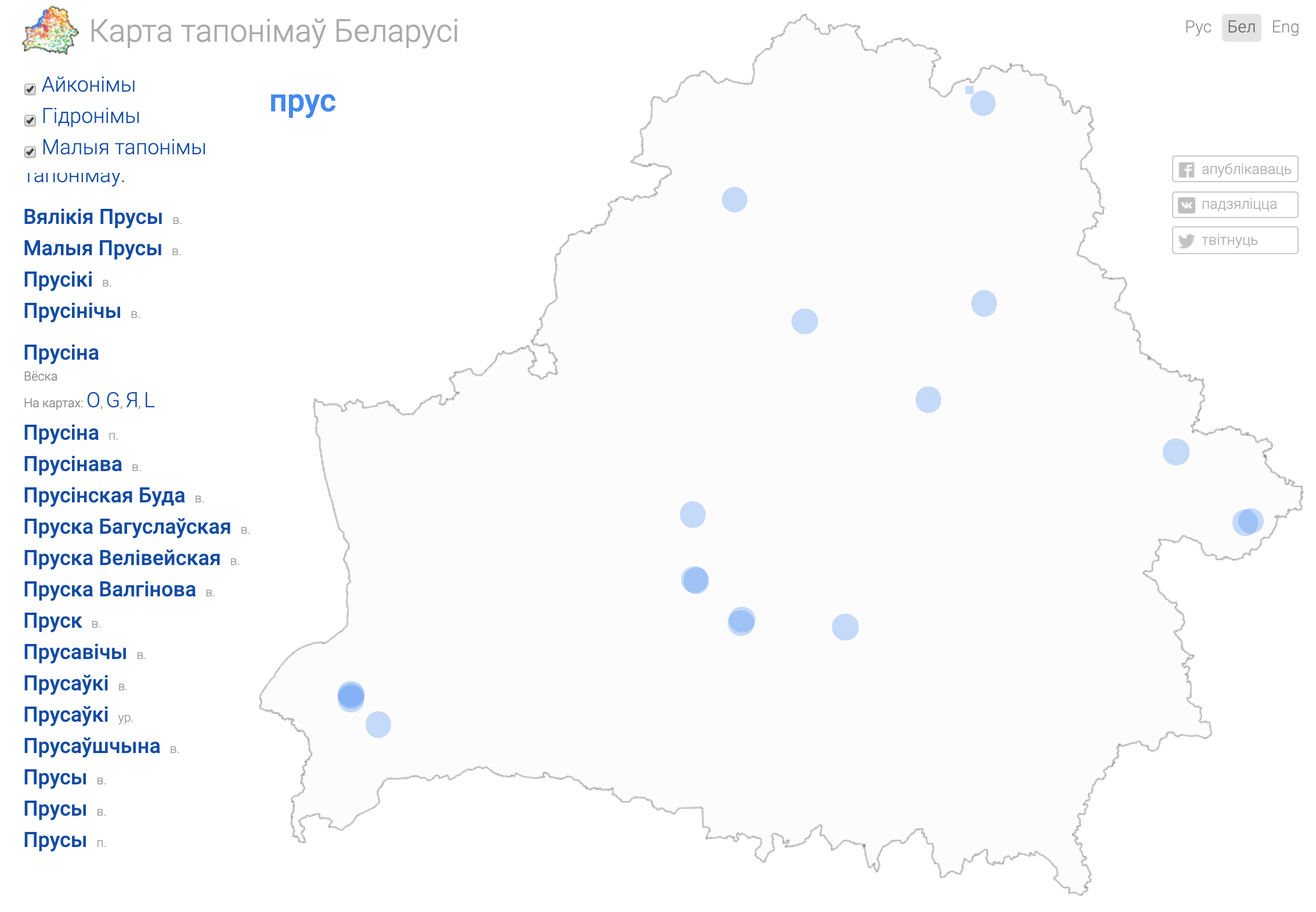 Toponim "Prussians" on the modern territory of Belarus.